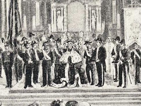 Kina Oscar II of Sweden and Norway at his Swedish coronation